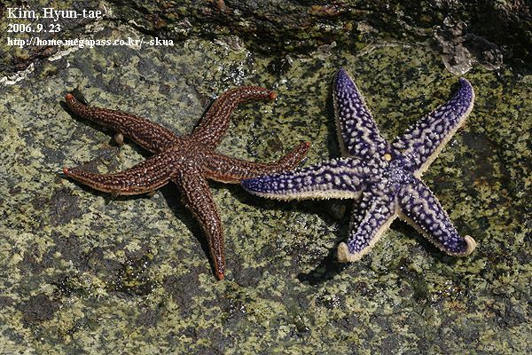 Asterias amurensis, species of starfish, photographed in Taean, Chungcheongnam-do, South Korea 2006 by Hyun-tae Kim